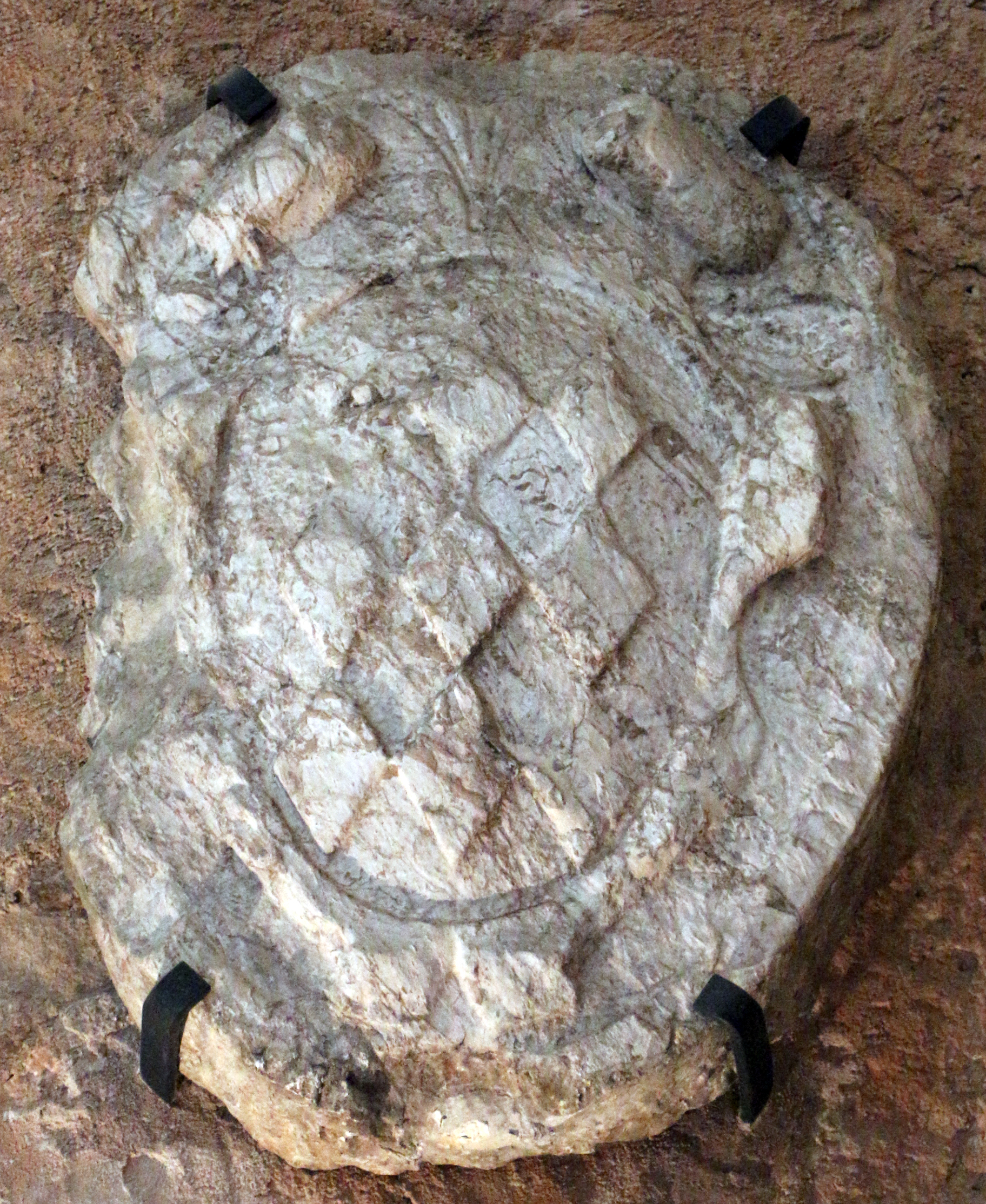 Castello di Piombino